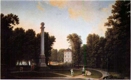 Dronninggård (now Næsseslottet) in Rudersdal Municipality, Denmark.